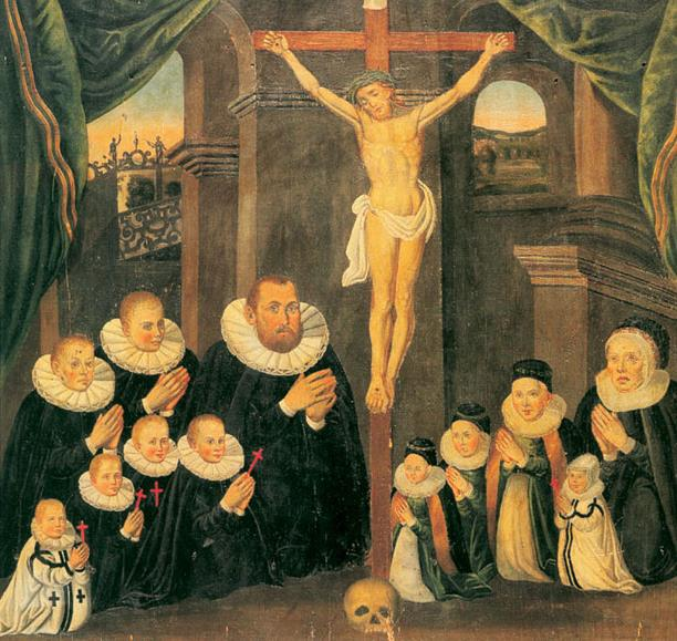 Northern Bohemian Glassworks Master Martin Friedrich the Younger and his Family, presumably painted by Elias Hille in 1596. During the 16th and 17th centuries, as a result of the Friedrich family’s development of their glass factory in Oberkreibitz (today Horní Chřibská) Bohemian glass art enjoyed its first heyday.